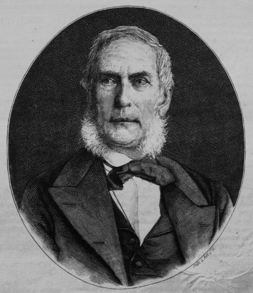 Portrait of Károly Kalchbrenner